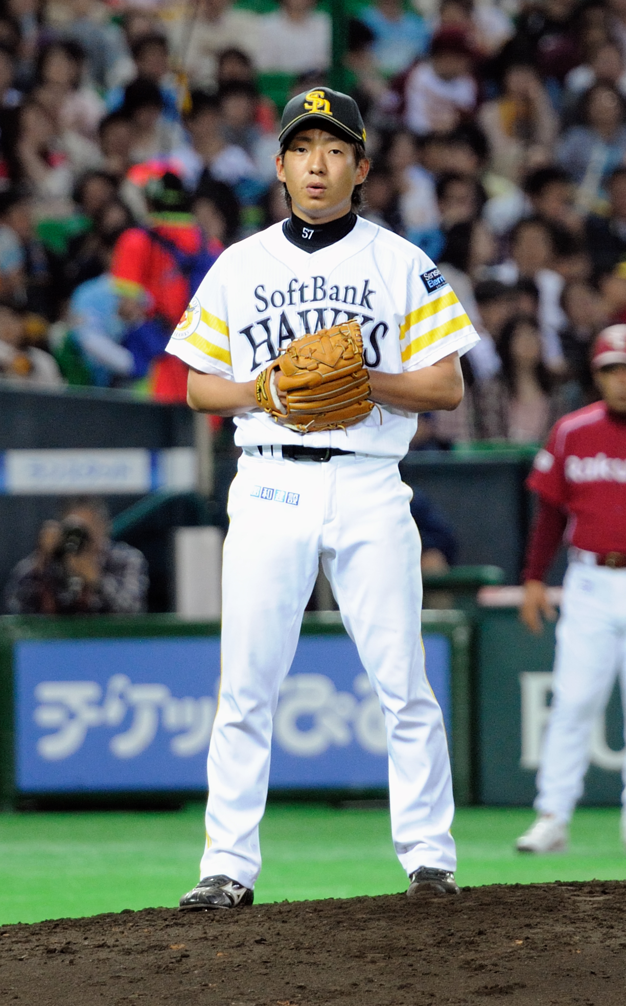 Shinya Kayama, a pitcher of the Fukuoka SoftBank Hawks, at the Fukuoka Dome.